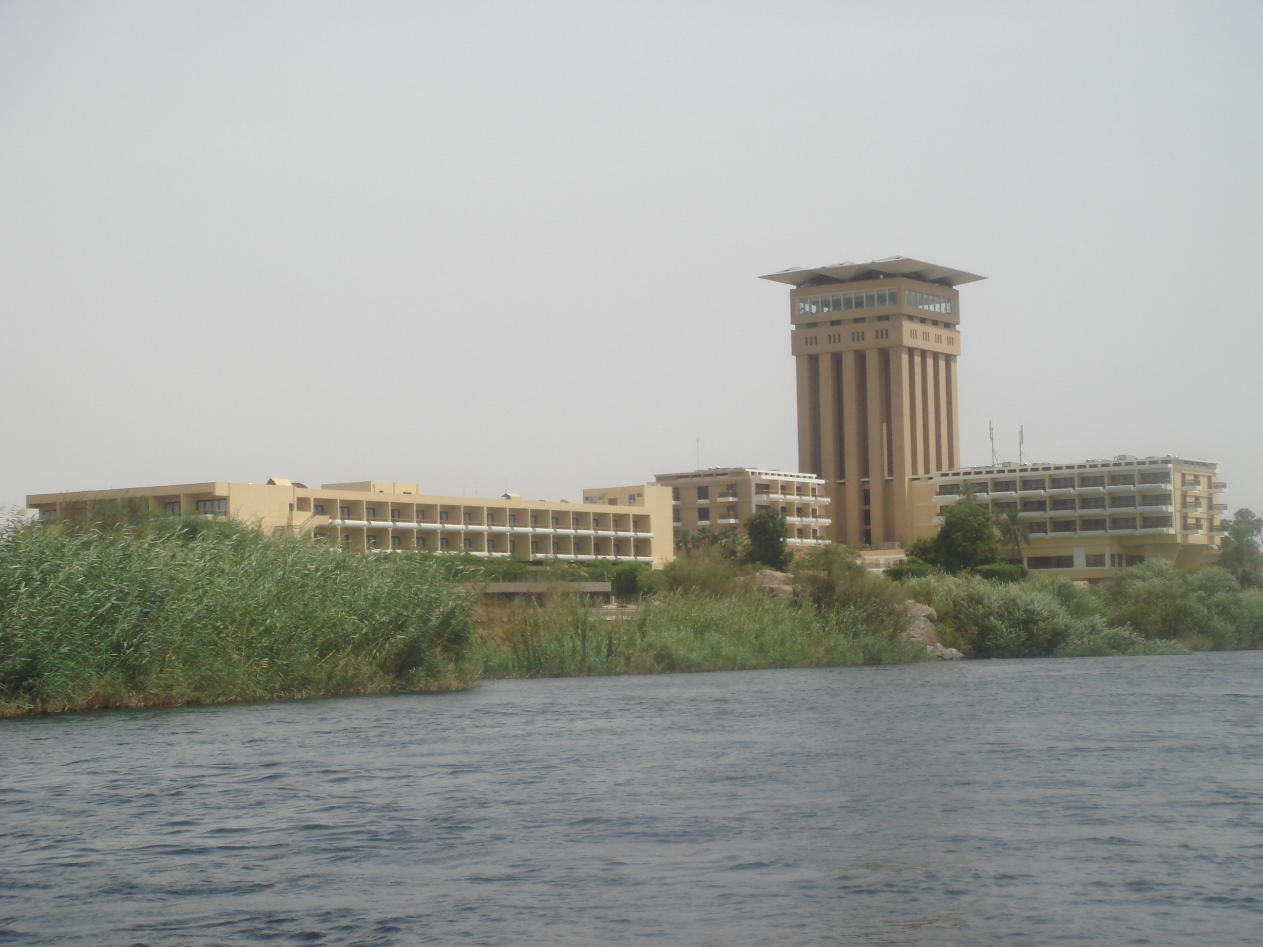 Mövenpick Resort in Aswan, Egypt.